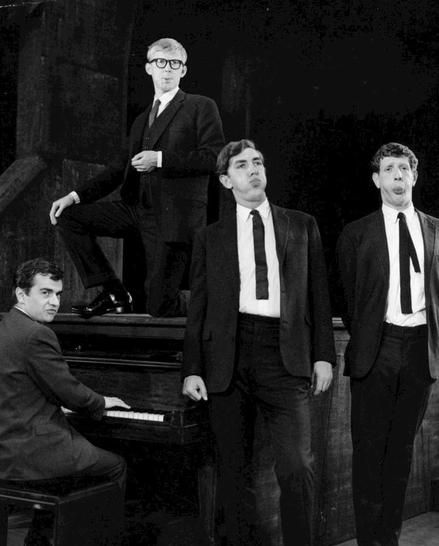 Original cast of Beyond the Fringe. From left: Dudley Moore, Alan Bennett, Peter Cook and Jonathan Miller. The revue played on Broadway from 1962 to 1964.